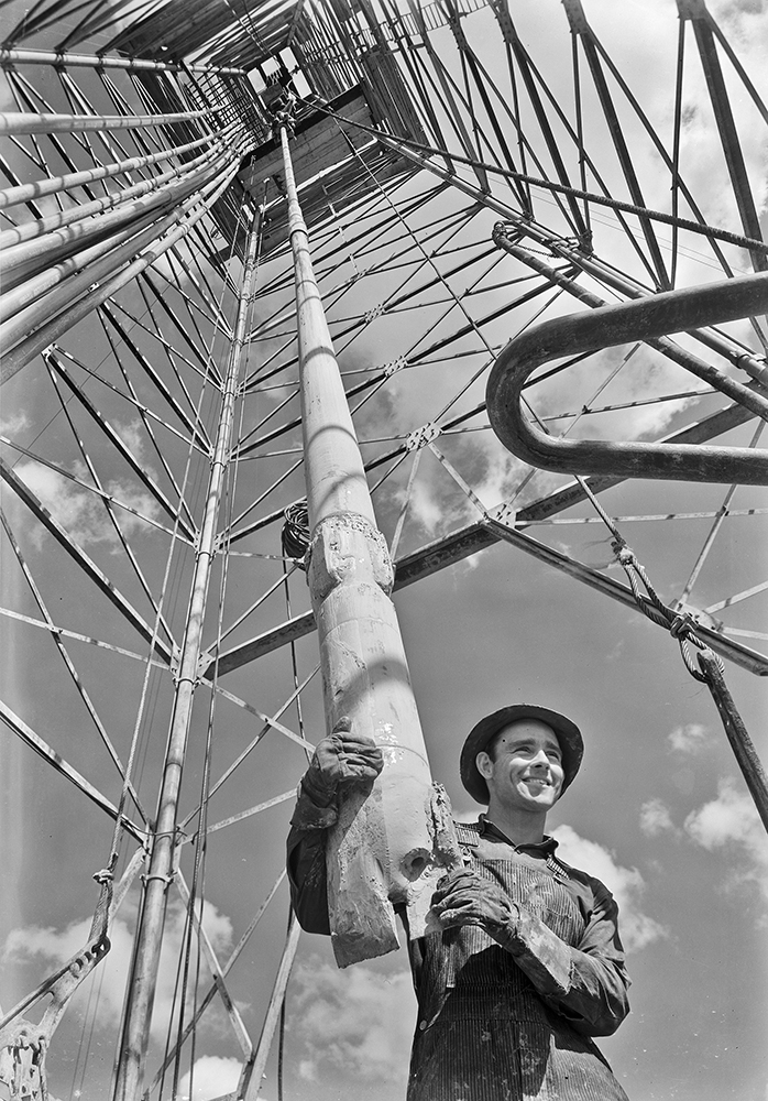 Title: Climax-Molybdenum Co., Iowa Colony, Texas, rough neck and fish tail bit on drill collar Creator: Robert Yarnall Richie Date: November 2, 1938 Part Of: Robert Yarnall Richie photograph collection Place: Iowa Colony, Texas Physical Description: 1 negative film: black and white; 17.7 x 12.6 cm. File: ag1982_0234_1886_065_climaxmolyco_sm_opt.jpg Rights: Please cite DeGolyer Library, Southern Methodist University when using this file. A high-resolution version of this file may be obtained for a fee. For details see the web page. For other information, . For more information, View the Robert Yarnall Richie Photograph Collection